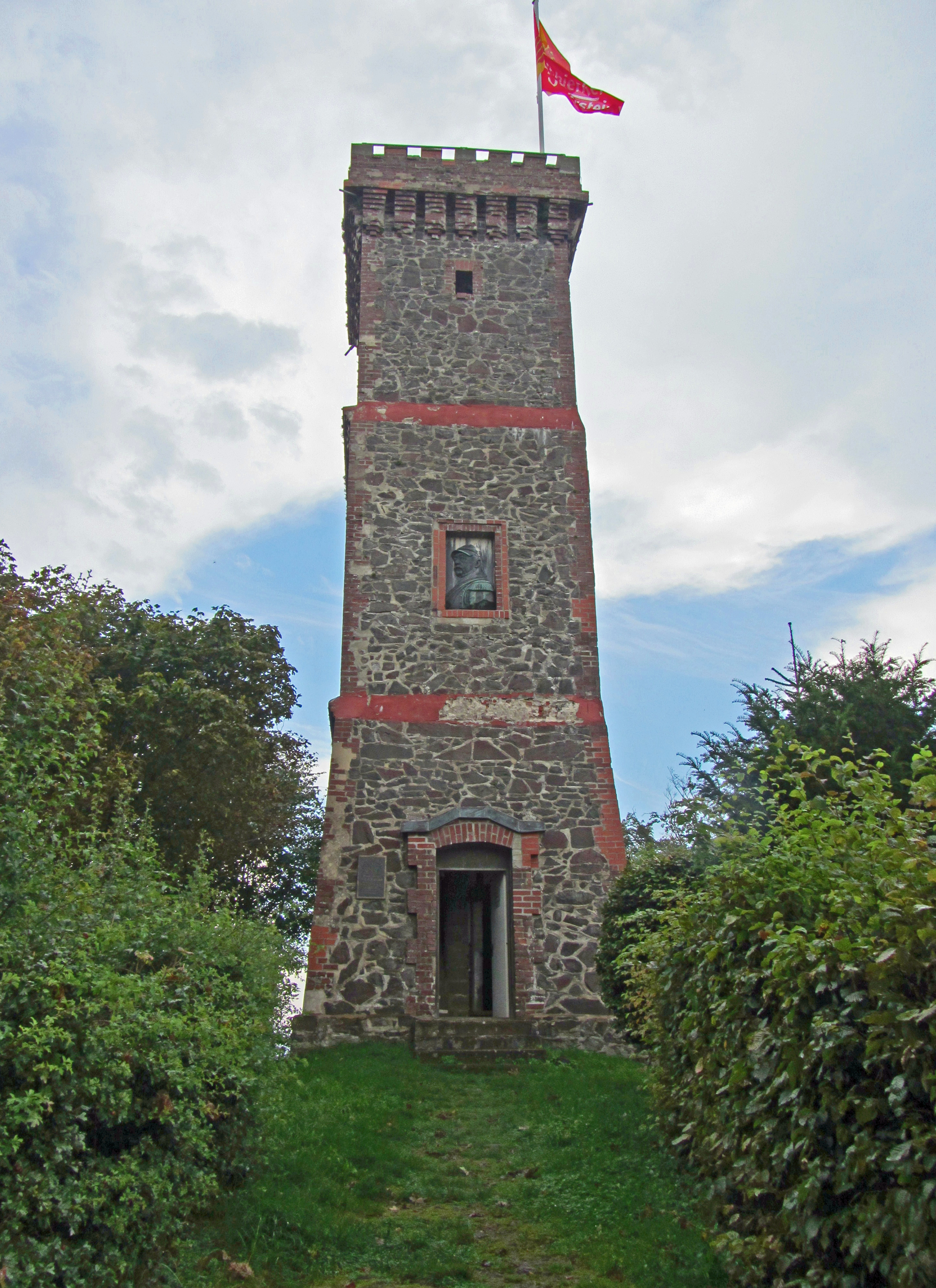 Bismarckturm near Bad Lauterberg (Harz)